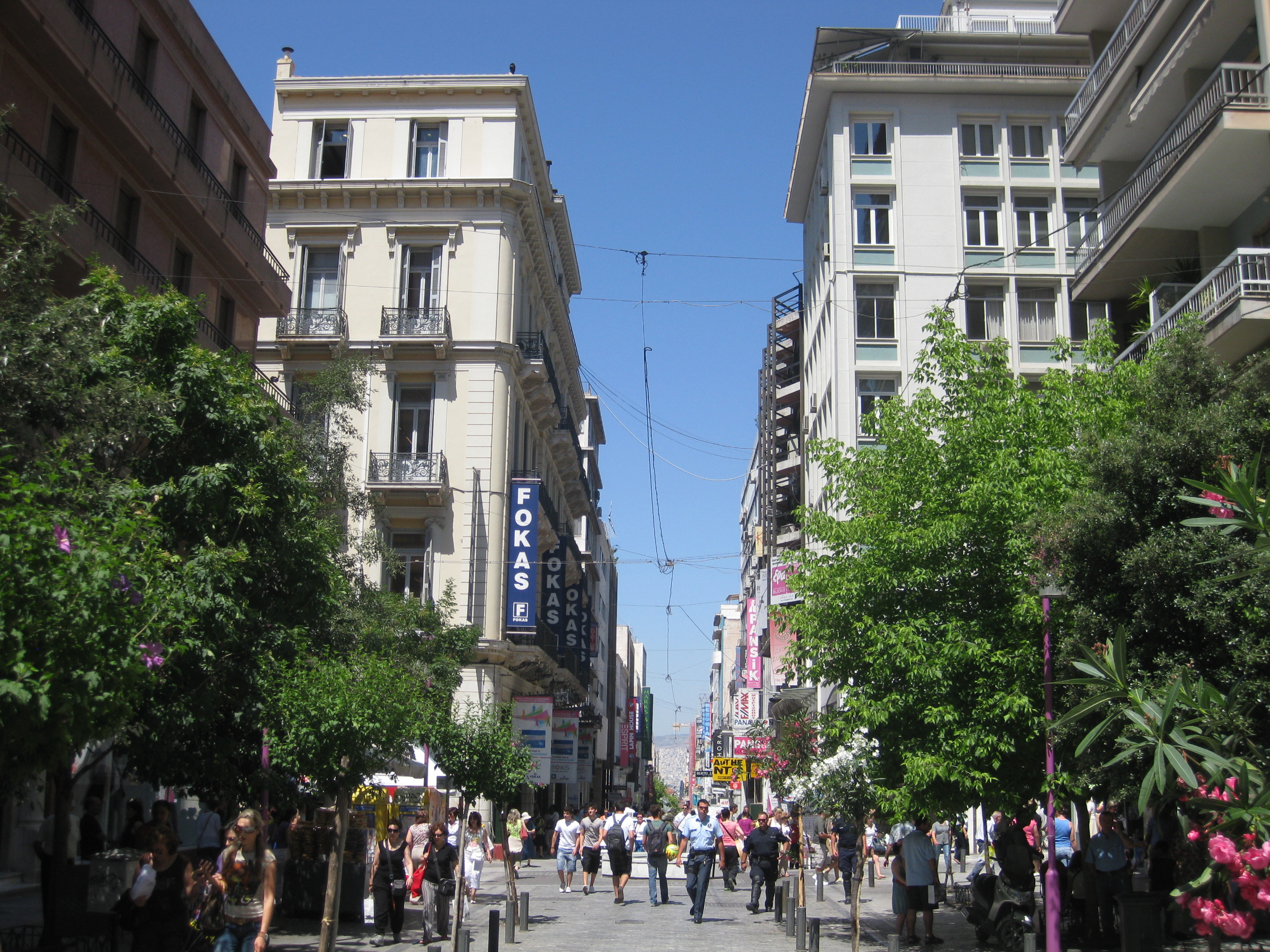 Ermou Street, Athens